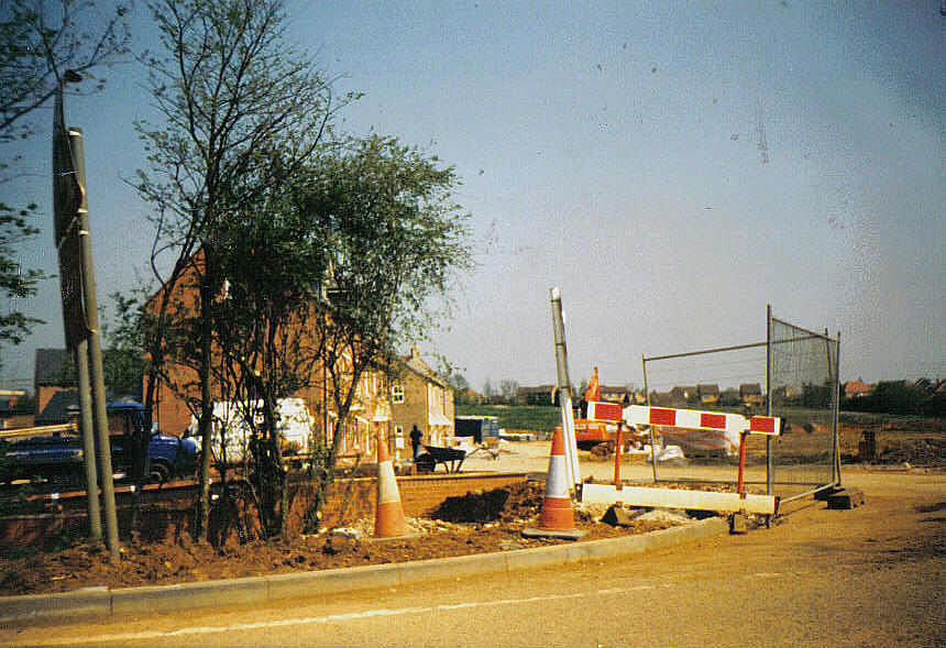 I took this picture of Hardwick in 1993 and donate it to the public domane.